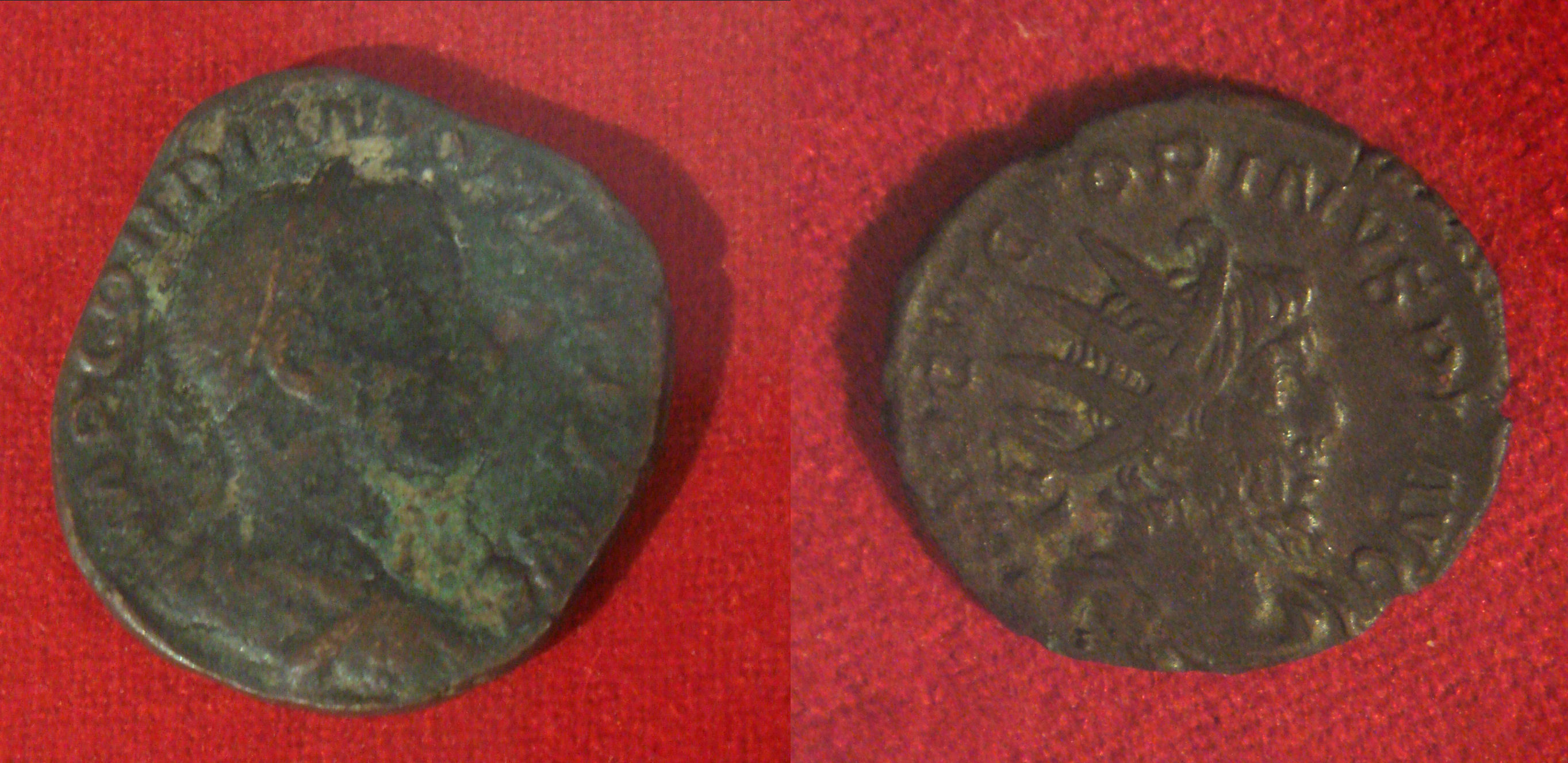 Roman_coins_excavated_in_Essaouira_3rd_century_and_late_Roman_Empire.